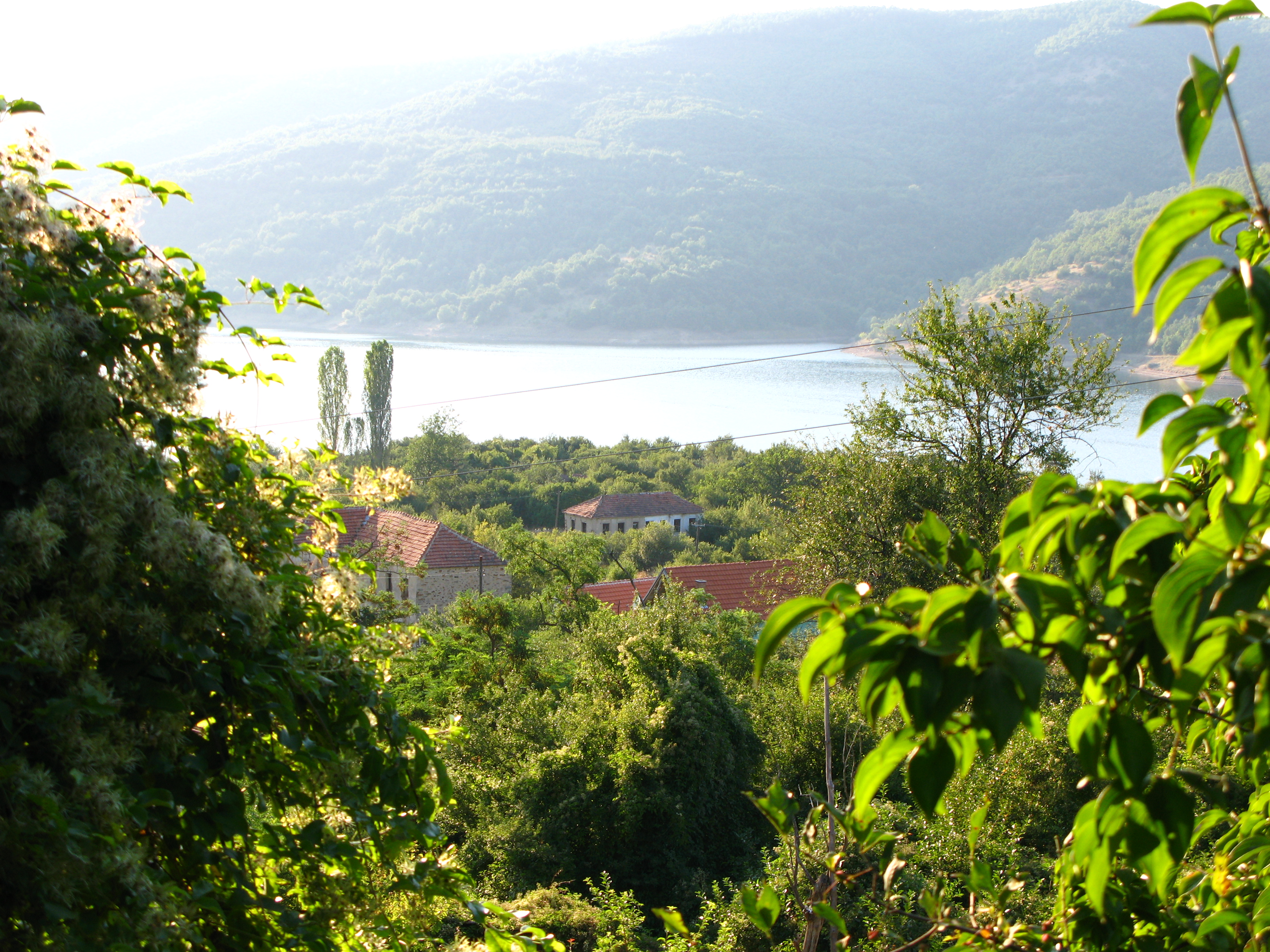 Streževo village. Macedonia